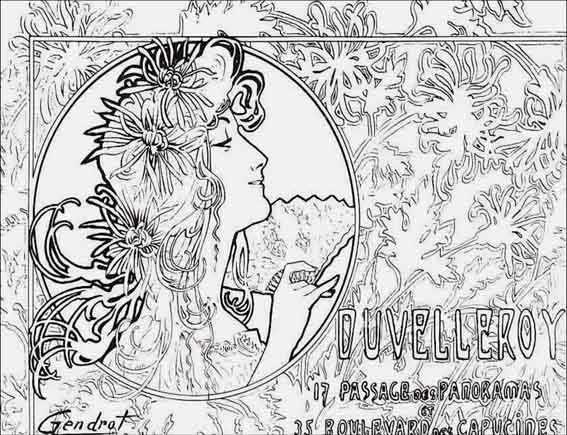 Publicité pour Duvelleroy, fabricant d'éventail 17 Passage des Panoramas et 35 Boulevard des Capucines, par Gendrot